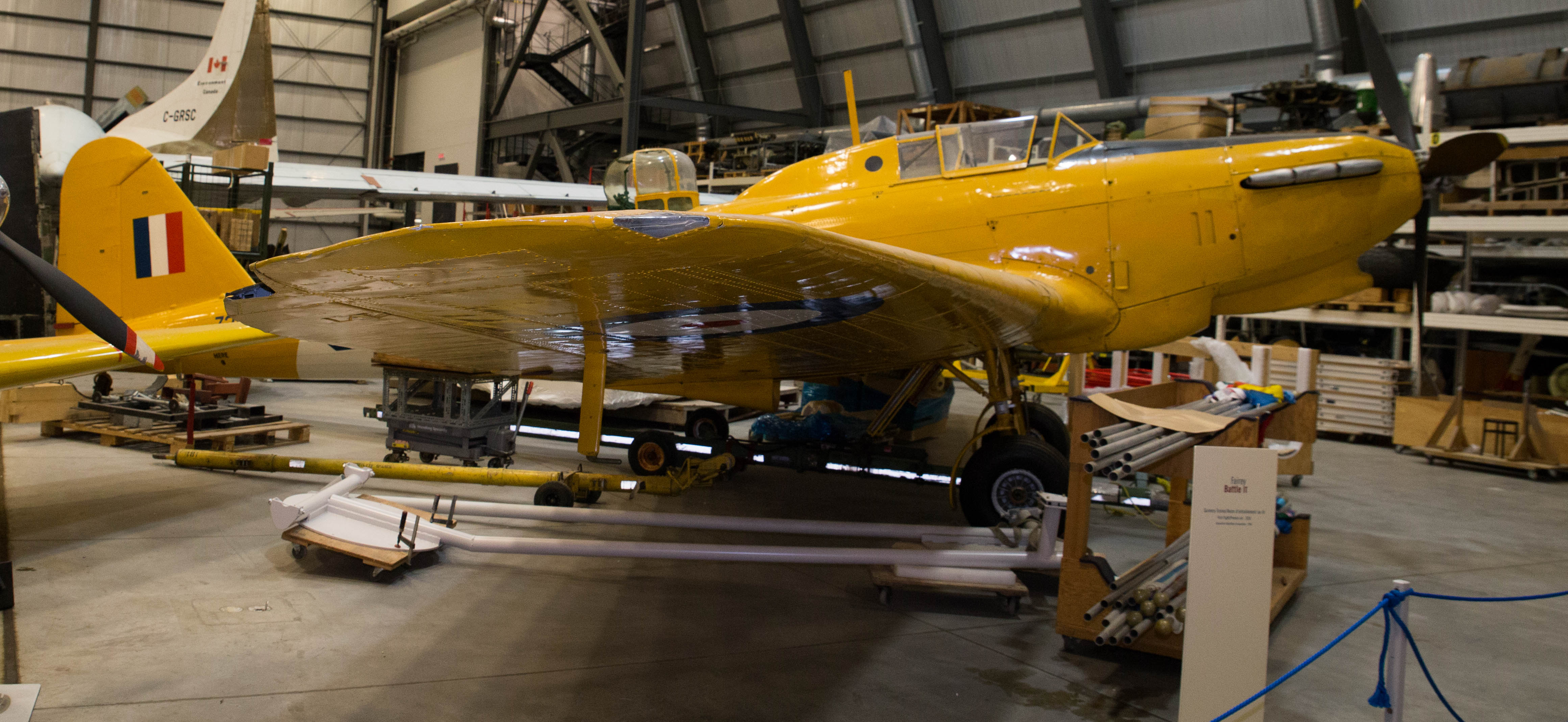 Canada Aviation and Space Museum